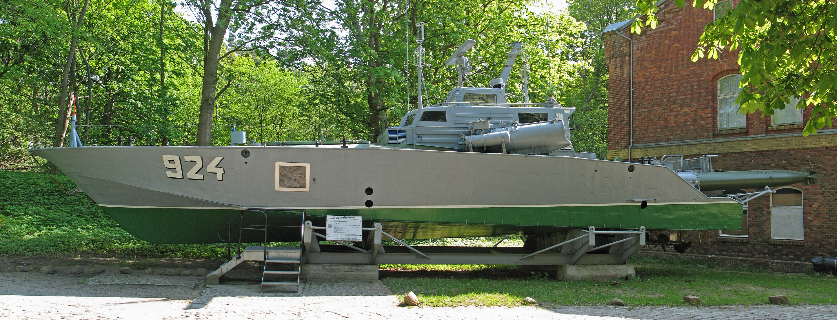 Small torpedo boat Nr. 924 (factory number 131.408) of Project 131 (Libelle) class of the GDR Navy